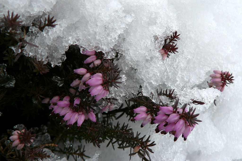 Erica Darleyensis